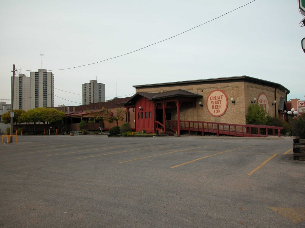 The Michigan Central Railroad Roundhouse in London Ontario was constructed in 1887 to service steam locomotive engines, as it appeared in 2011